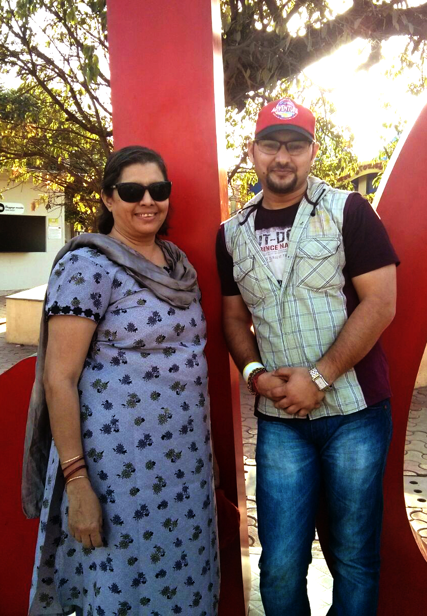 Principal of school Mrs. Aibara Hutoxi with Arjun Rana (left to right)